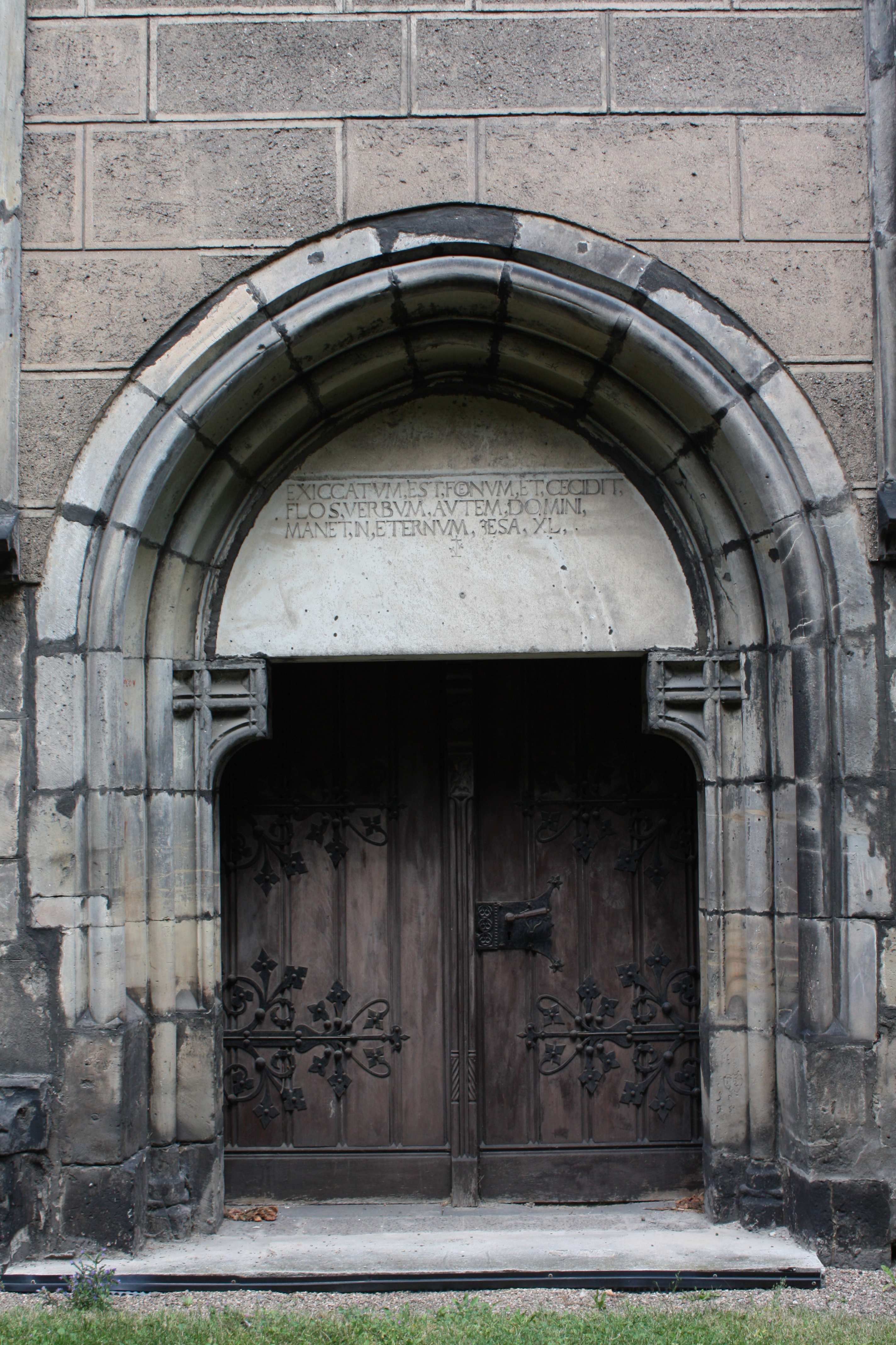 This photo of Lower Silesian Voivodeship was taken during Wikiexpedition 2013 set up by Wikimedia Polska Association. You can see all photographs in category Wikiekspedycja 2013. English | Polski | +/−